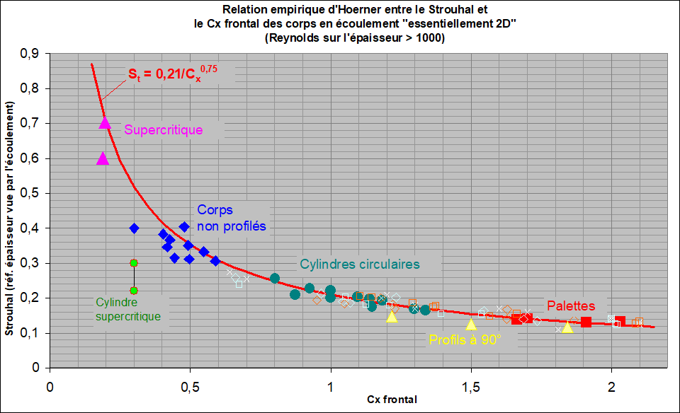 Hoerner's empirical relationship (Strouhal vs Cx), Hoerner marks augmented by other marks, including those corresponding to the regular polygonal section prisms of Xu, Zhang, Gan, Li and Zhou, . Hoerner's empirical relationship is drawn in red.